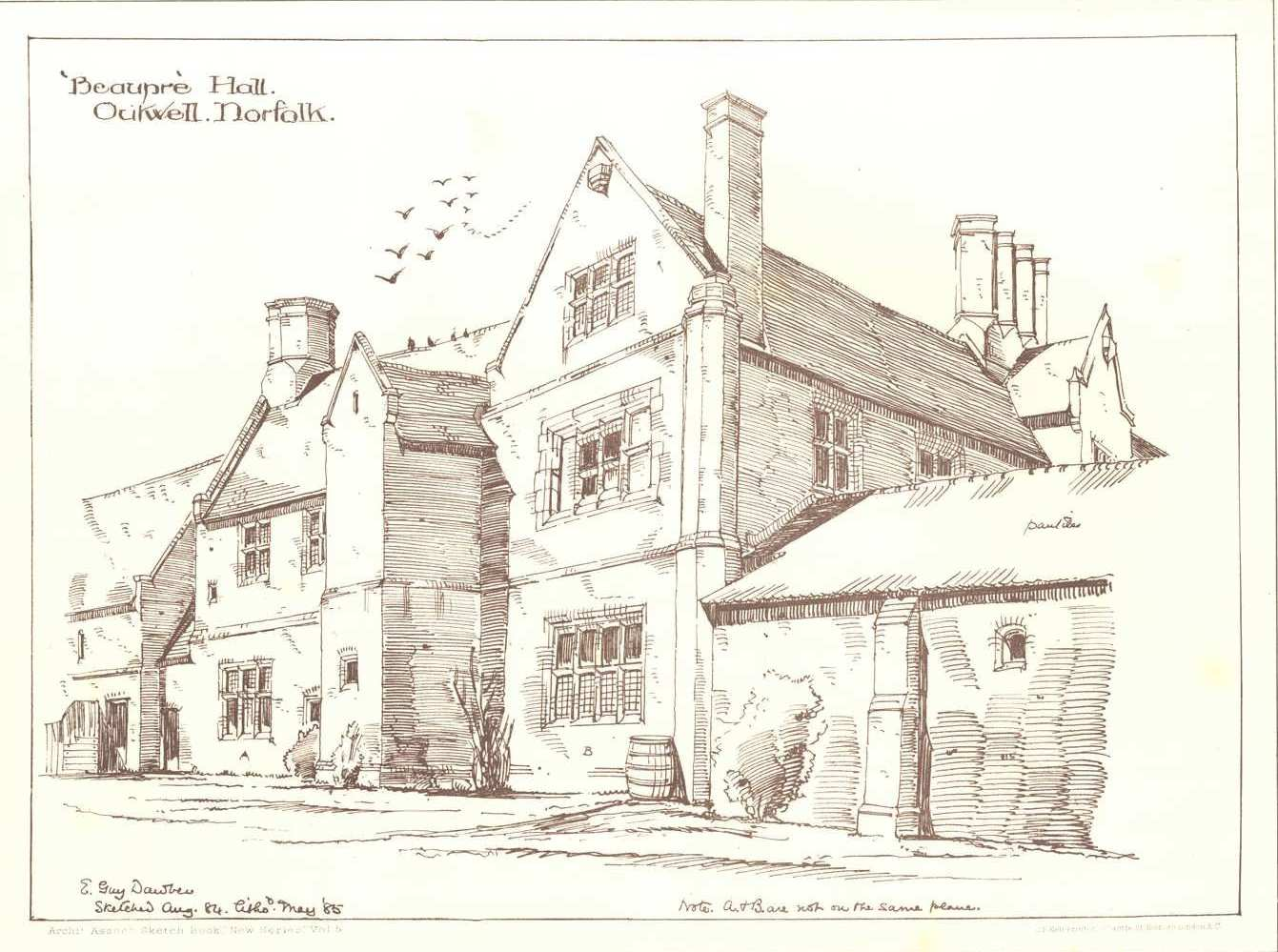 Drawing of Beaupre Hall